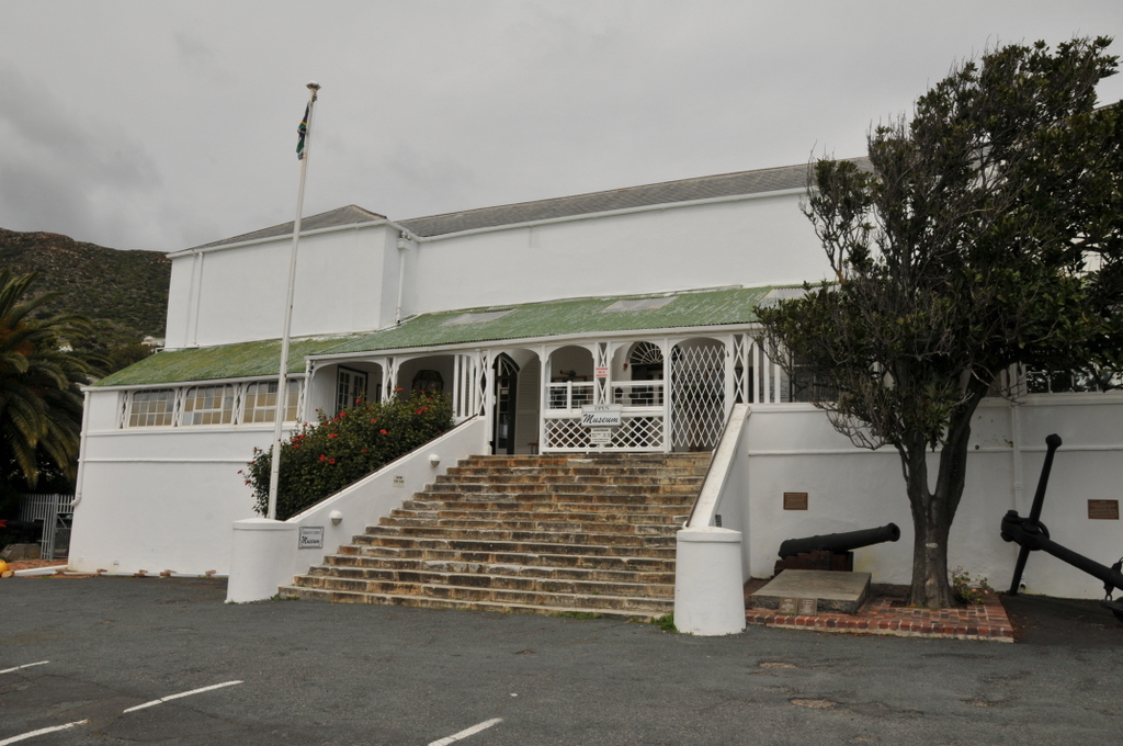 Simonstown Museum, 4 Court Road, Simonstown - Built in 1777, the Residency has been the home of many of the town's colourful residents, ranging from postmasters to constables, crooks and ladies of ill repute. Today, visitors come here to learn more about Simon's Town's fascinating past: exhibits cover the late Stone Age until the forced removals of the 1960s. Some of them could do with a bit of sprucing up, but most visitors will be able to find a room in the house featuring a topic that interests them - be it the Early History Room with its hunter- gatherer dioramas and comprehensive exposition of the Battle of Muizenberg, the Military Room displaying artefacts from both world wars, or the more light-hearted Just Nuisance Room, featuring his royal dogginess's collar and newspaper clippings covering his antics. This media shows a South African Protected Site with SAHRA file reference 9/2/081/0068.